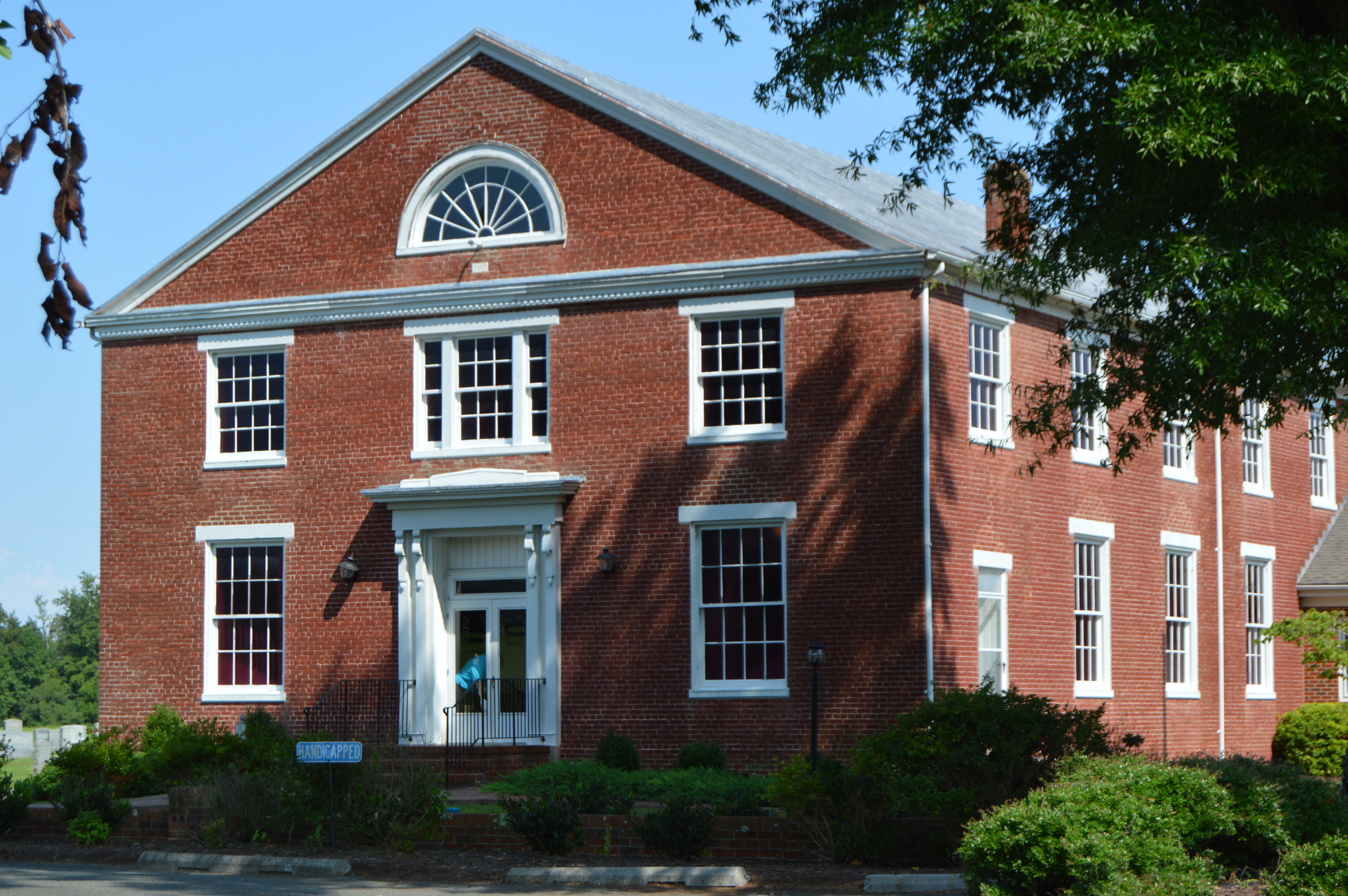 Front and southern side of the Coan Baptist Church, located on Coan Church Road east of Rainswood in Northumberland County, Virginia, United States. Built in 1846, it is listed on the National Register of Historic Places.